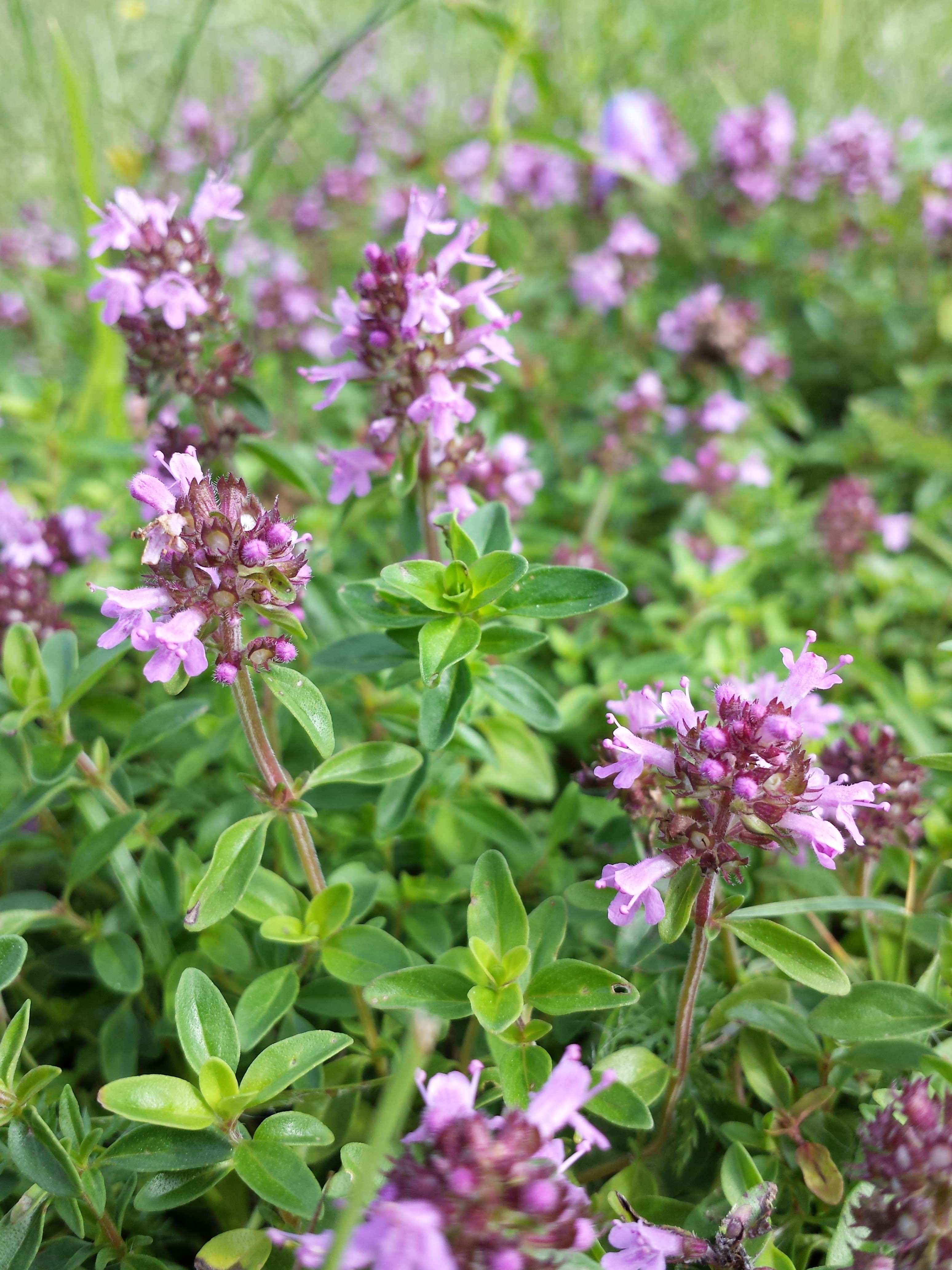 Habitus (individual with androgynous flowers) Taxonym: Thymus pulegioides subsp. pulegioides ss Fischer et al. EfÖLS 2008 ISBN 978-3-85474-187-9 Location: near Wiesensfeld, district Zwettl, Lower Austria - ca. 800 m a.s.l. Habitat: neglected grassland